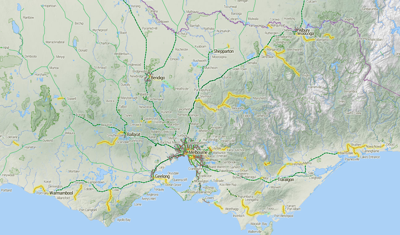 Map showing all rail trails in Victoria. Cartography by Steve Bennett, data by OpenStreetMap contributors.